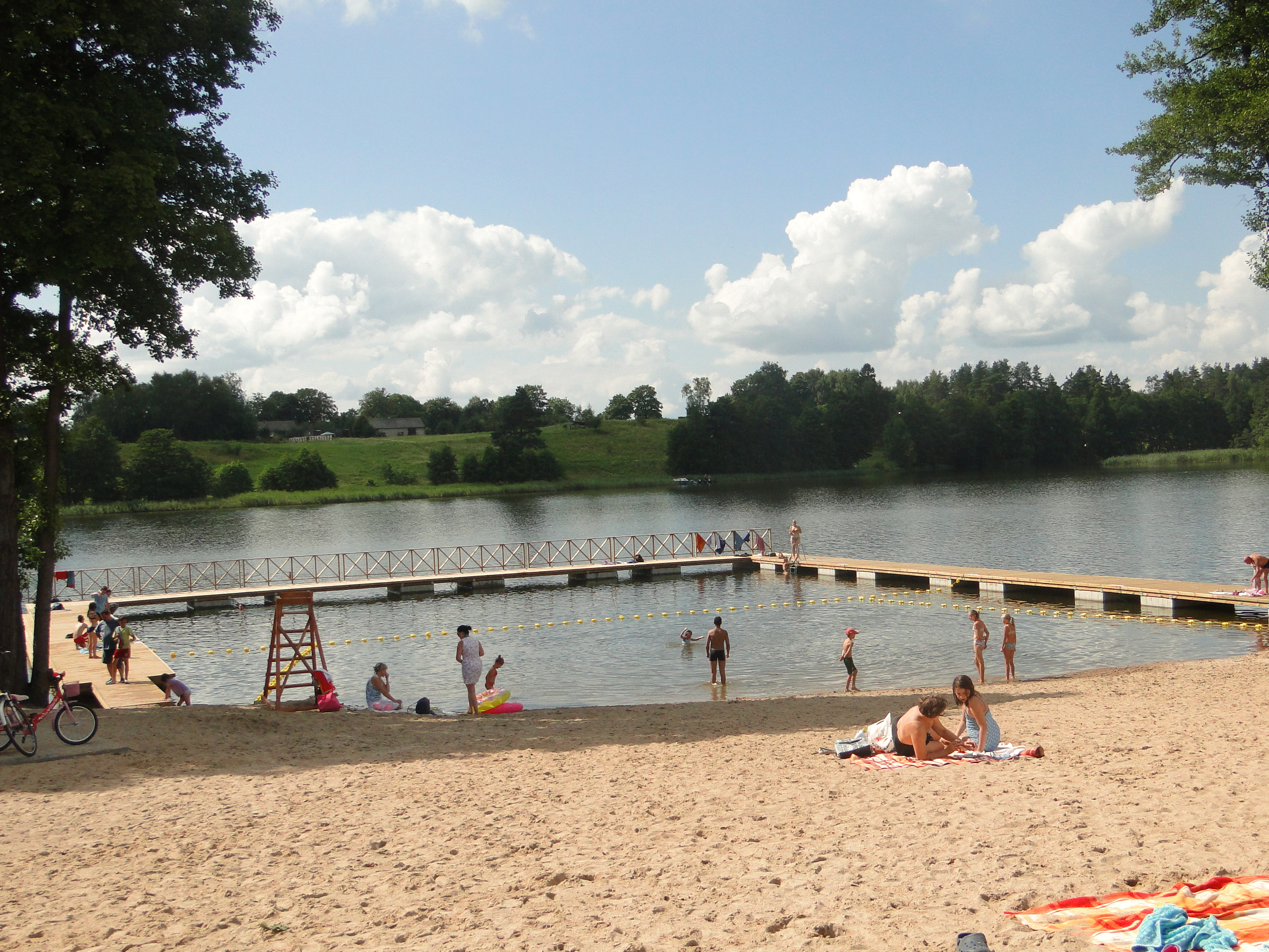 Lake Wągiel, beach in Ostrów Pieckowski.